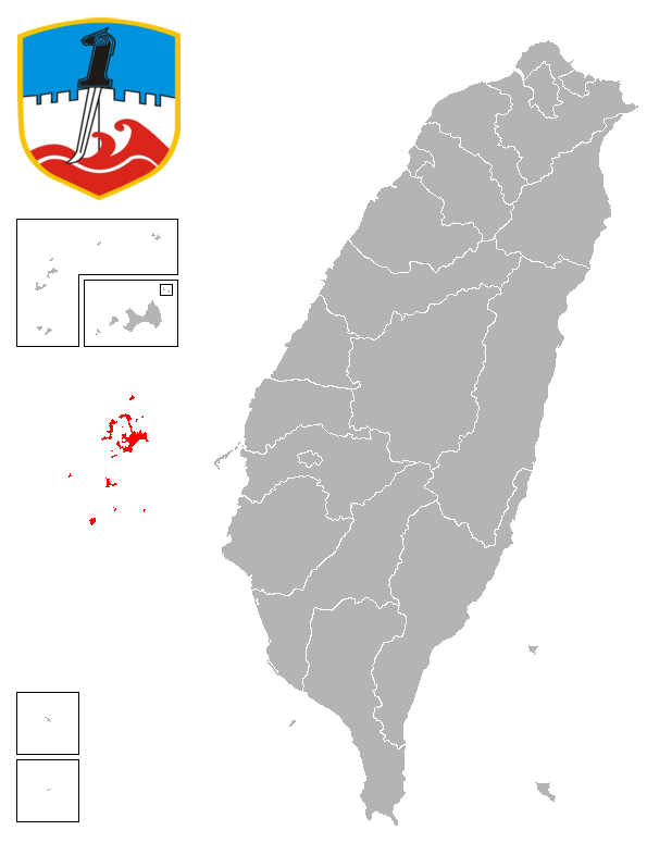 Republic of China (Taiwan) Penghu Defense Forces Map